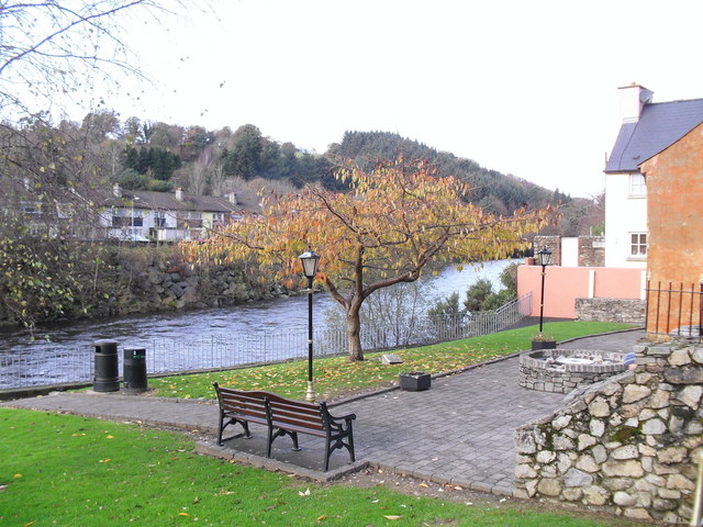 River Avoca Passing through Avoca village - known to TV buffs as "Ballykissangel".